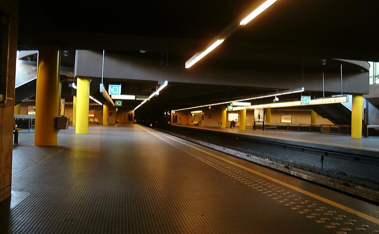 Platforms of Sint-Guido / Saint-Guidon station, Brussels metro